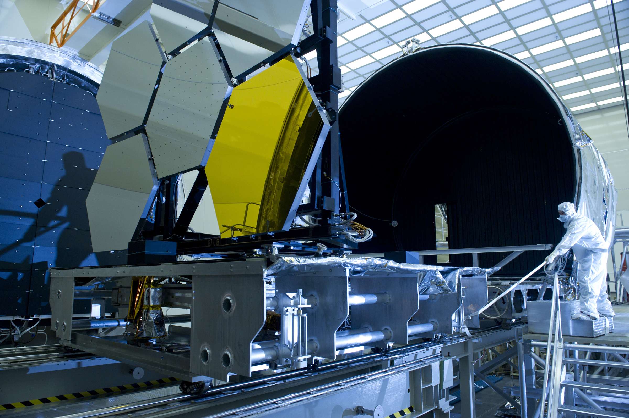 Webb Telescope Primary Mirror Segment Completes Cryogenic Test